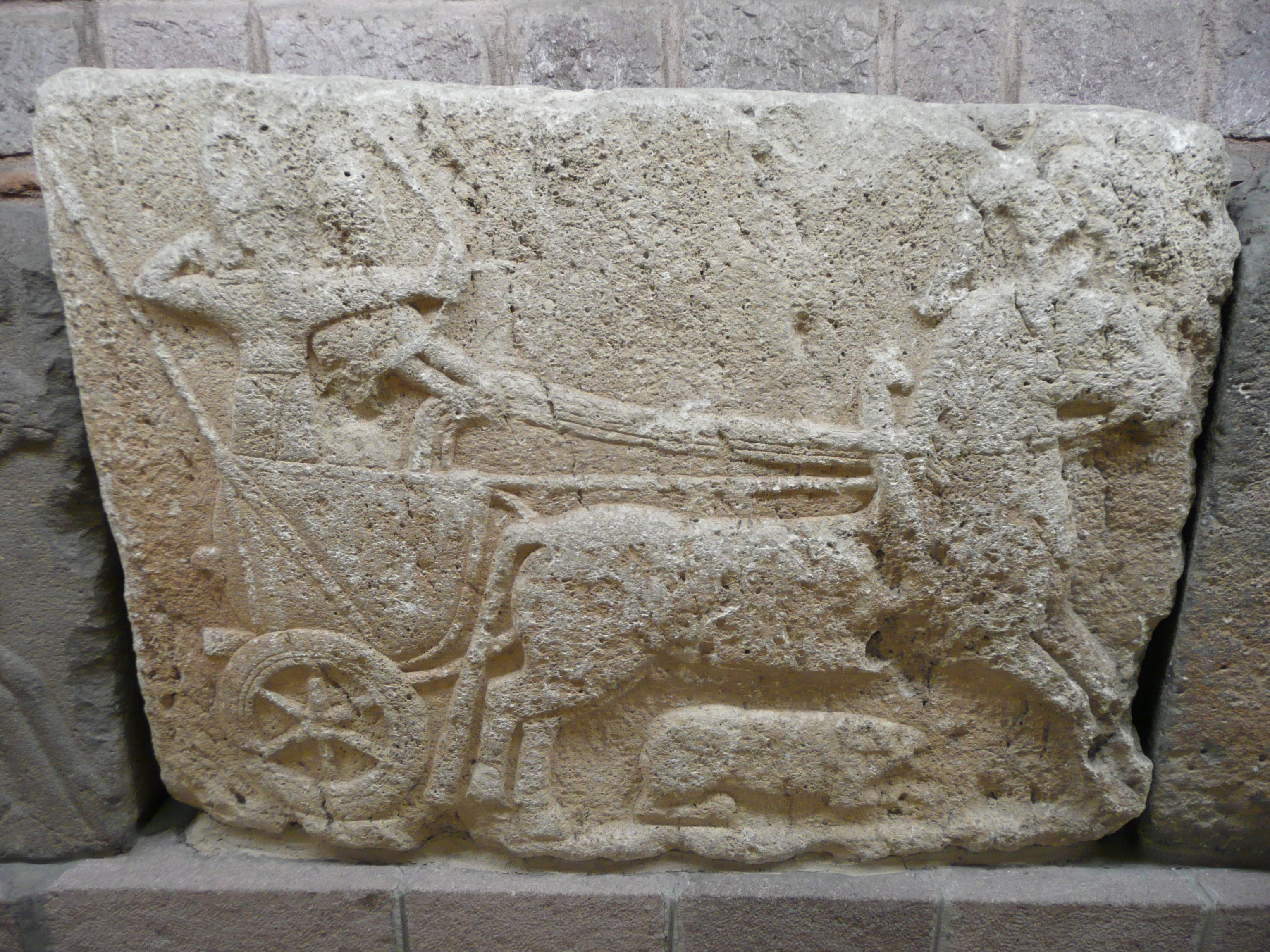 The Museum of Anatolian Civilizations is situated in Ankara, Turkey. It is one of the leading museums in the world for its unique collection of the ancient history of Anatolia.